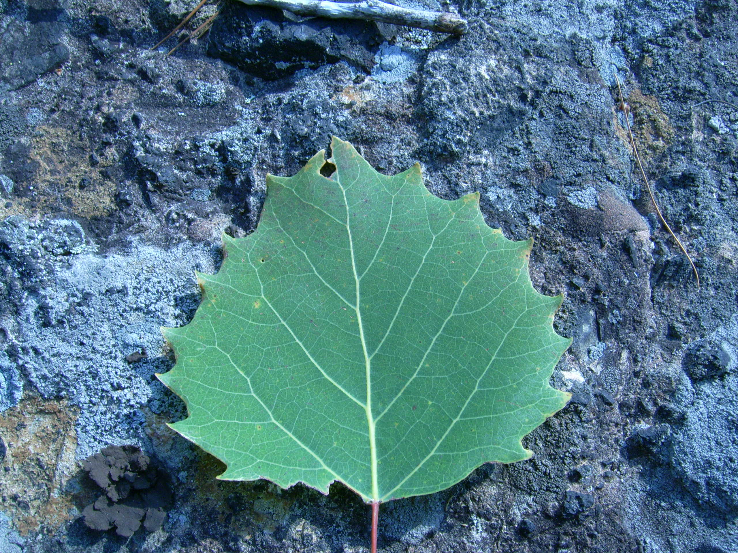 Large-toothed aspen (Populus grandidentata), Unorganized Algoma (Grasett Twp.), Ontario